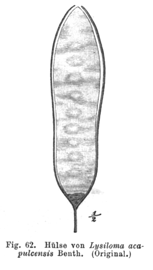 Illustration from book